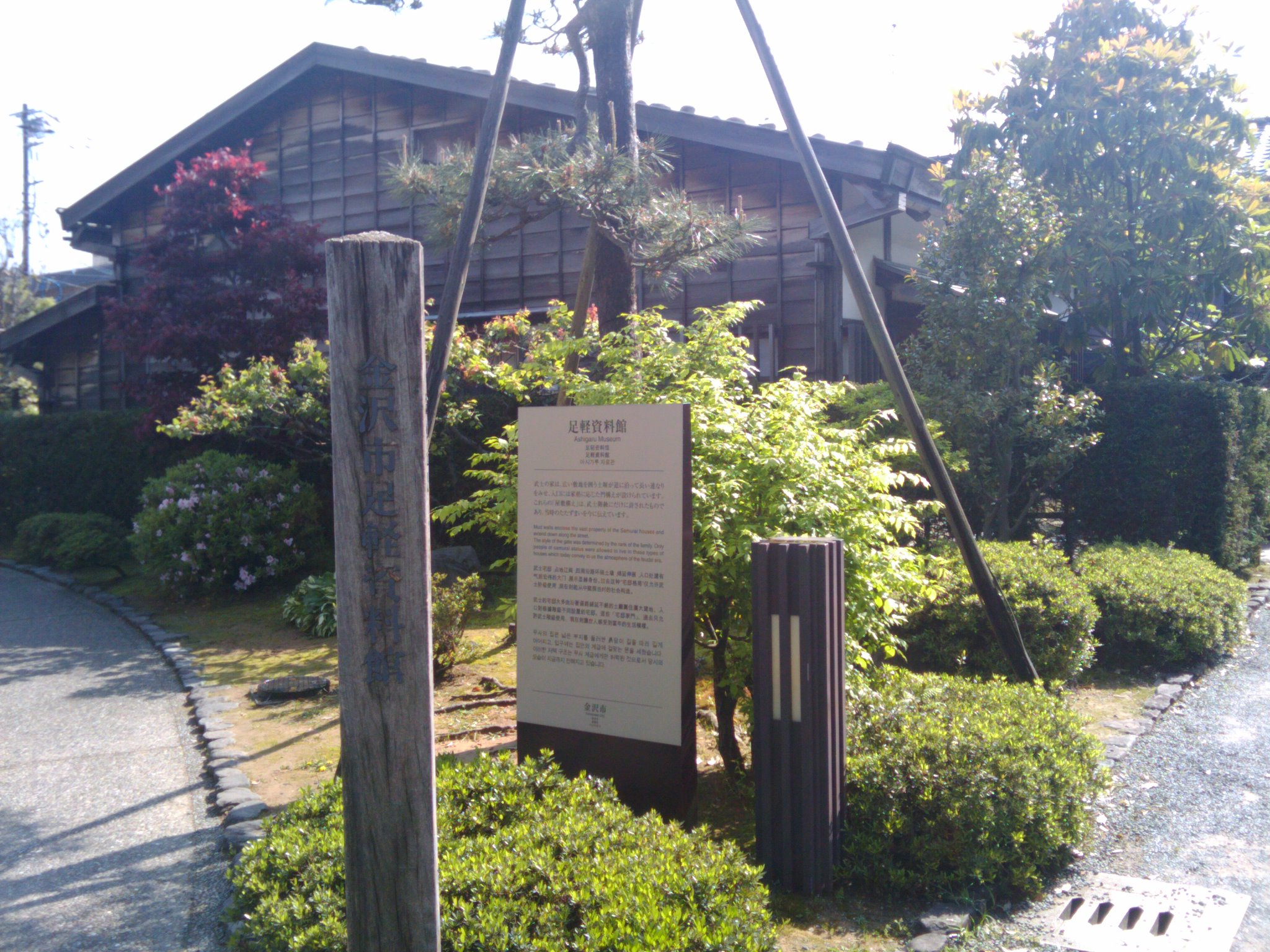 Ashigaru Shiryokan Museum (Kanazawa, Ishikawa, Japan)